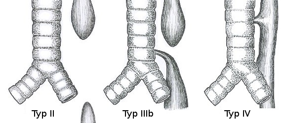 Common anatomical types of oesophageal atresia: Typ II: Isolated esophageal atresia without tracheooesophageal fistula (7%). Typ IIIb Oesophageal atresia with distal tracheooesophageal fistula (86%). Typ IV H-type tracheooesophageal fistula (4%)